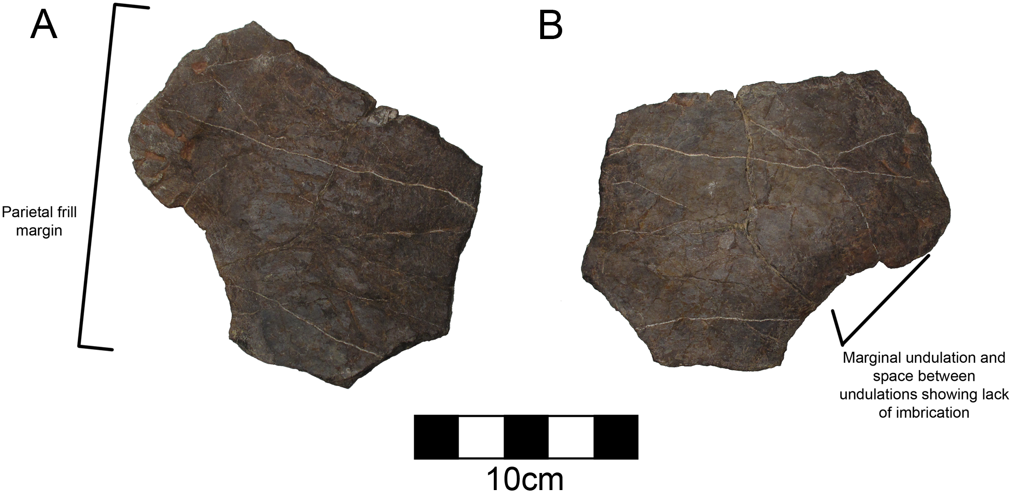 Fig 5. CPC 274 Parietal - One parietal fragment of CPC 274 in both front and back views (A, B) showing one of the parietal undulations. Scale = 10 cm.